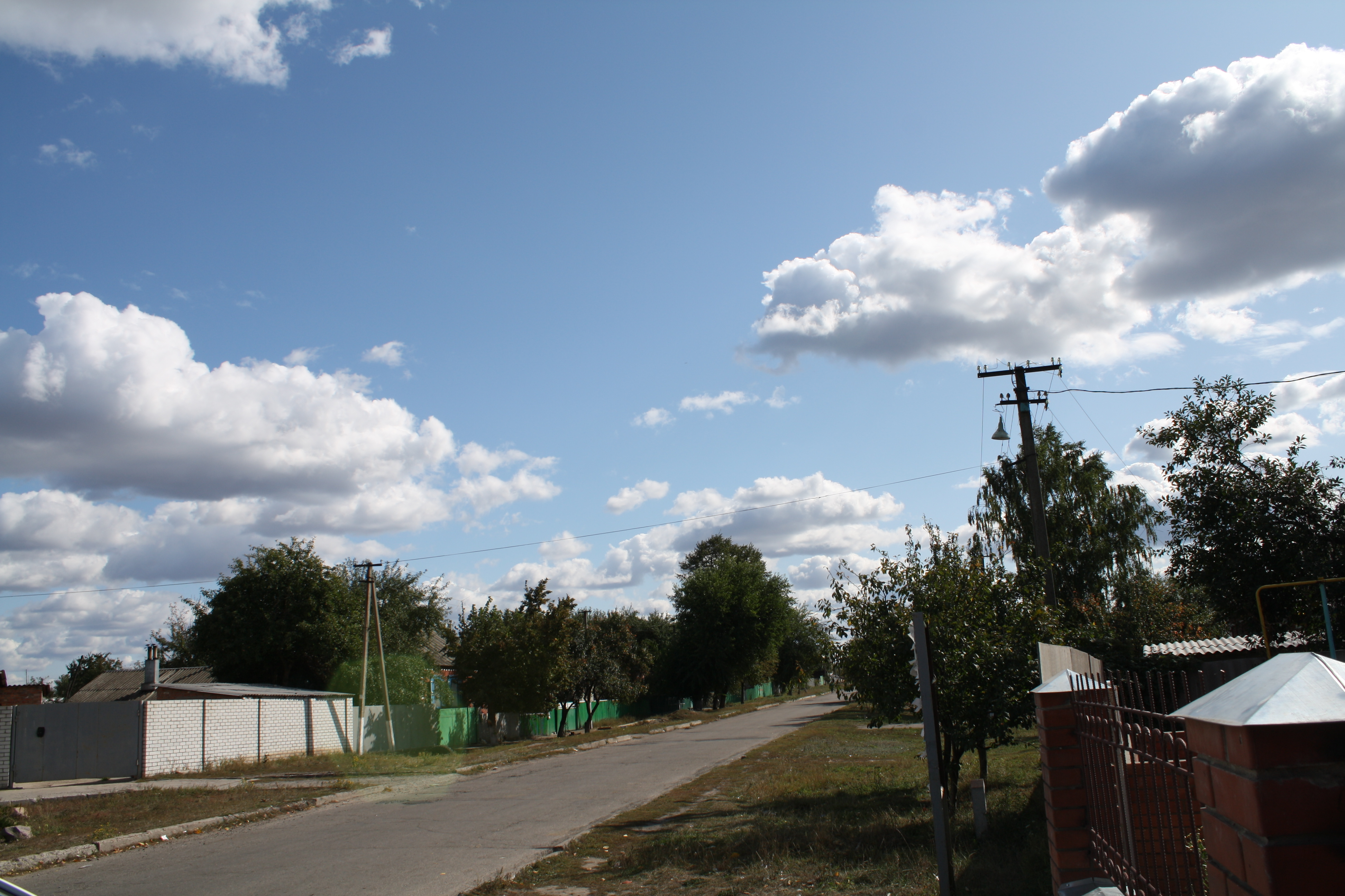 Street in the town of Malynivka, Kharkiv Oblast, Ukraine